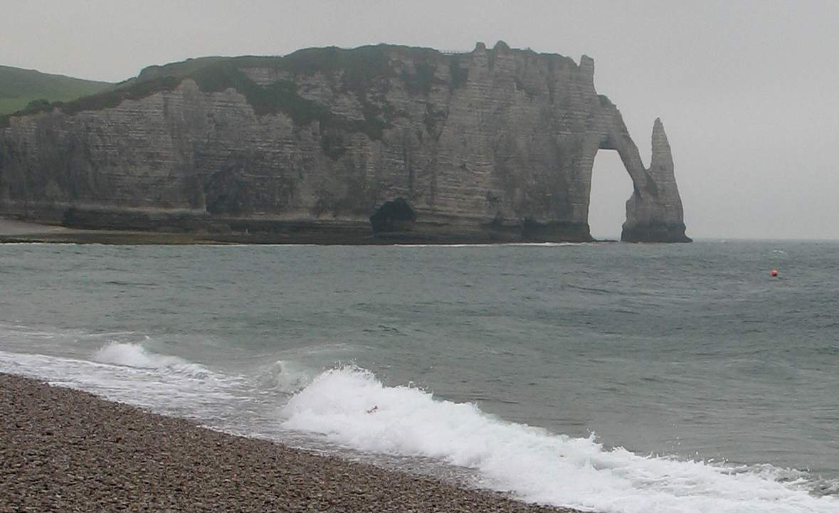 Limestone cliff of Étretat